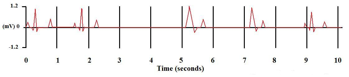 ventricular_escape_beat_cardiogram_diagram